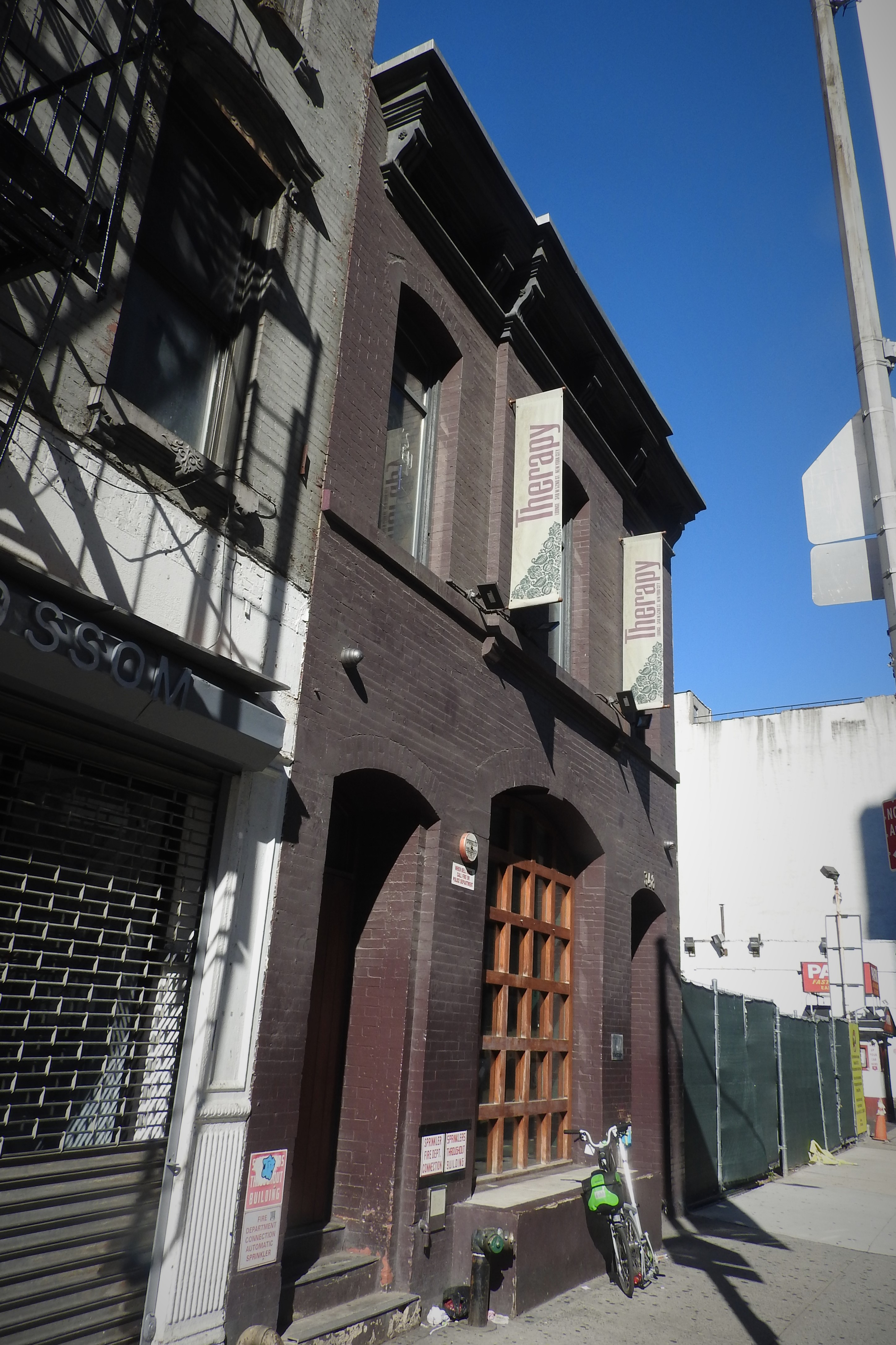 Looking west from sidewalk on a sunny morning